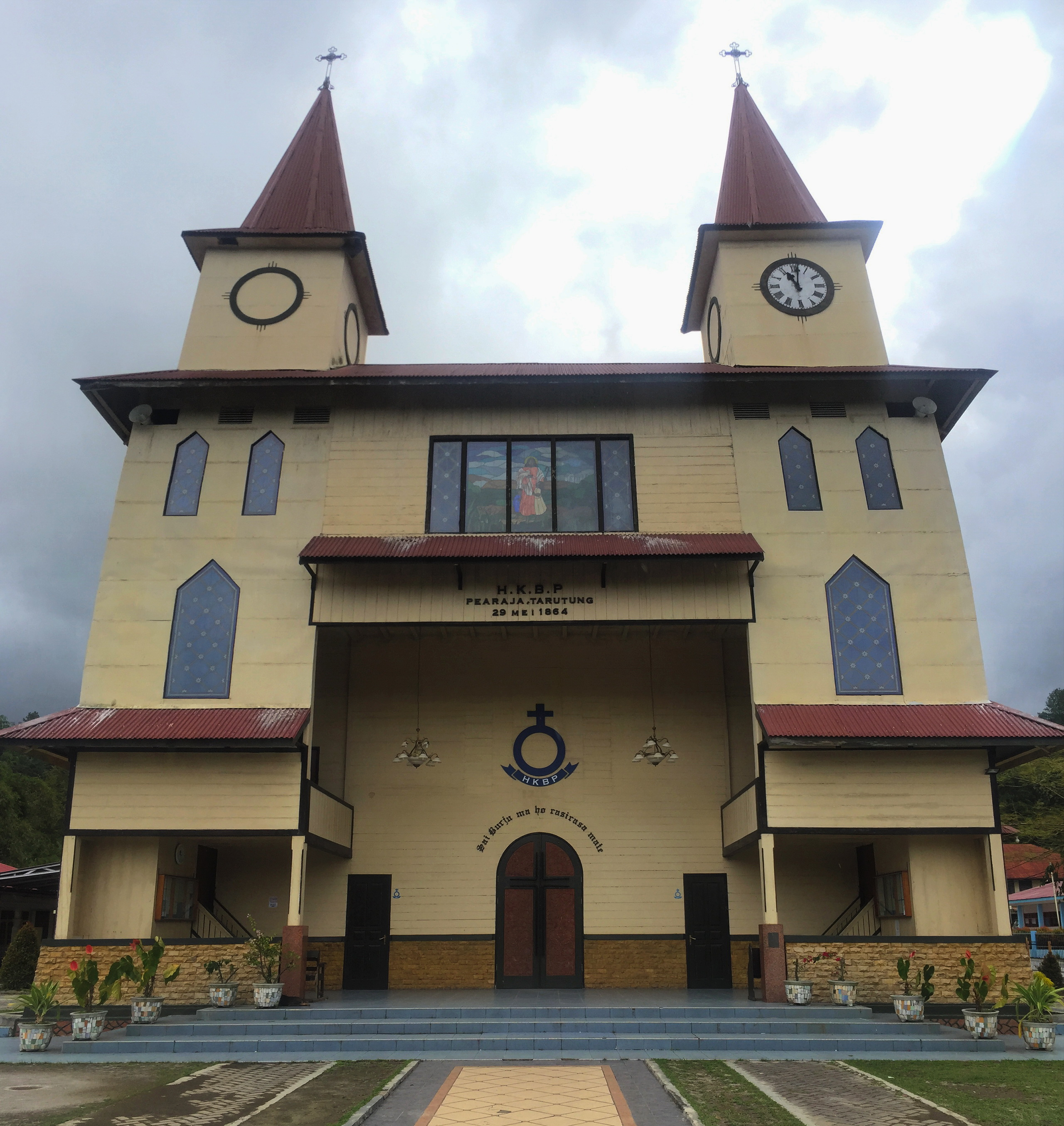 HKBP Pearaja, Church in Pearaja, Hutatoruan V, Tarutung, North Tapanuli